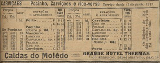 Timetable of the trains in the Linha do Sabor (Sabor Railway), in Portugal, on the 15th June 1913. This image was published on the Guia Official dos Caminhos de Ferro de Portugal No. 168, of October 1913, and scanned by the Biblioteca Nacional de Portugal.